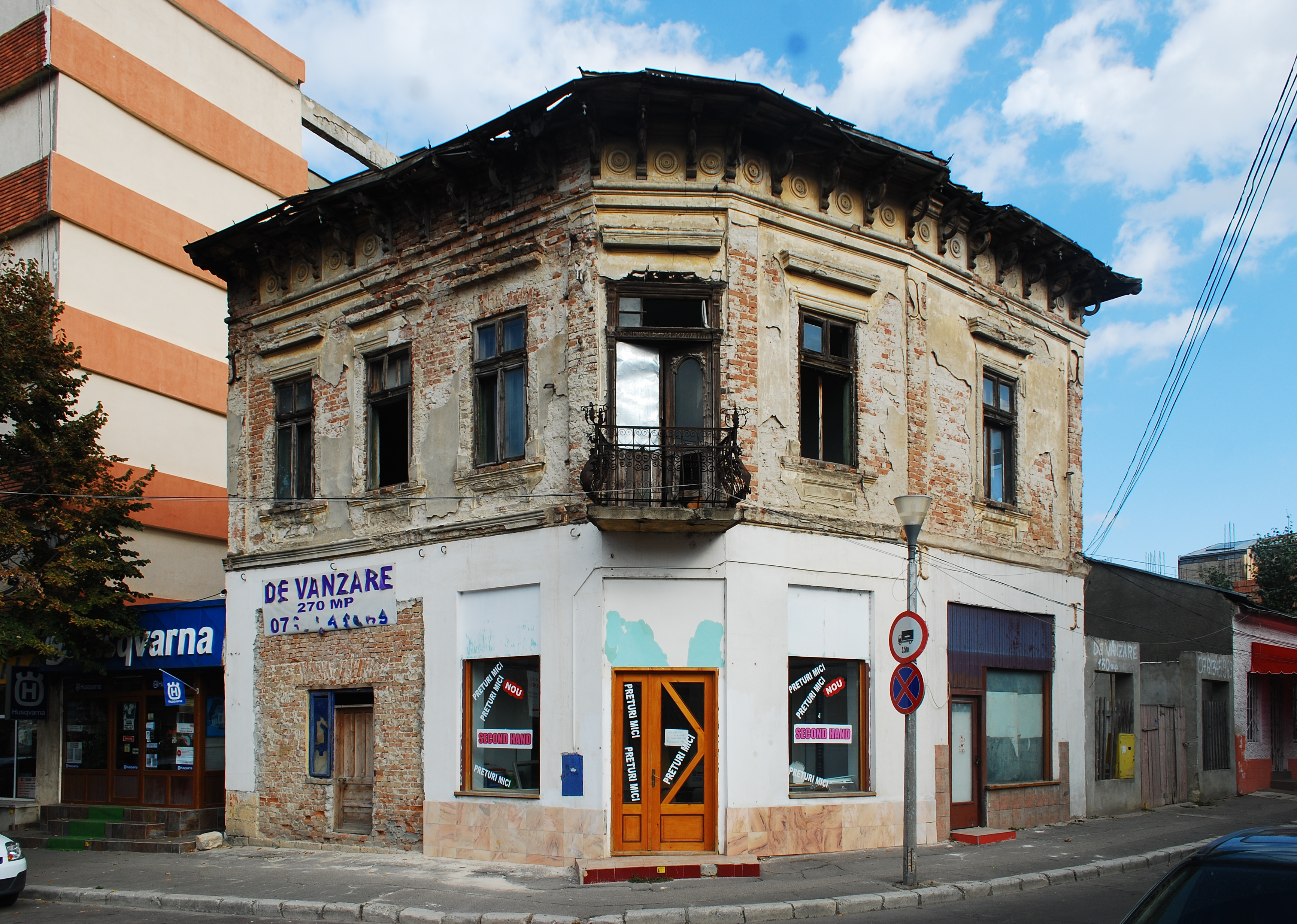 Historical building on Griviţei street, no. 1, Buzău, Romania